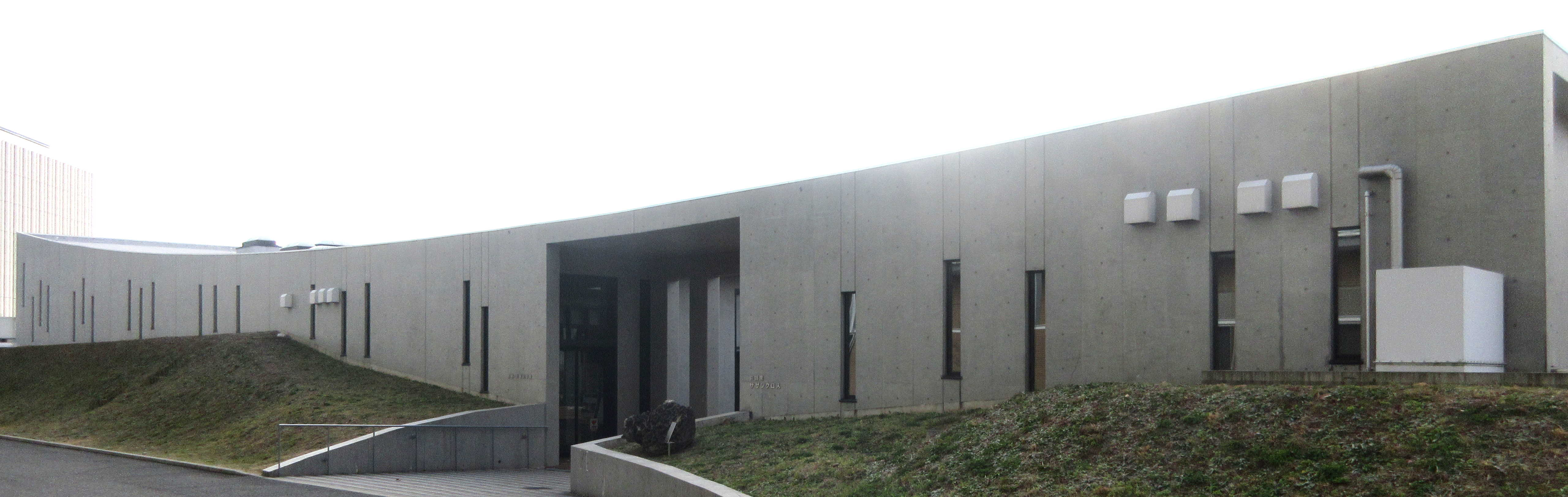 Polar Science Museum, National Institute of Polar Research. The museum is left of the building, and a lounge, Southern Cross, at the right. An object in the center is an biotite gneiss (黒雲母片麻岩), not a sculpture.